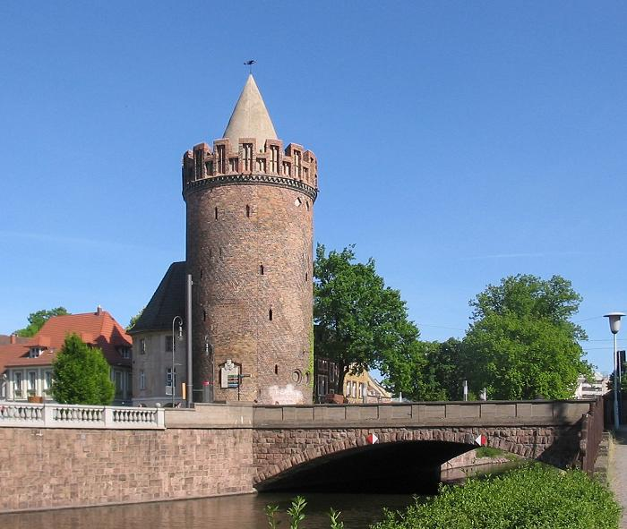 Steintorturm, built in the first half of the 15th century, one of the four still existing of the formerly nine gate towers in Brandenburg an der Havel, state Brandenburg, Germany.